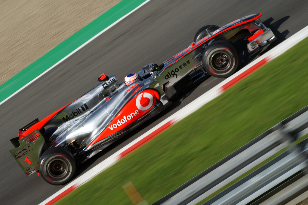 Jenson Button driving for McLaren at the 2010 Belgian Grand Prix.